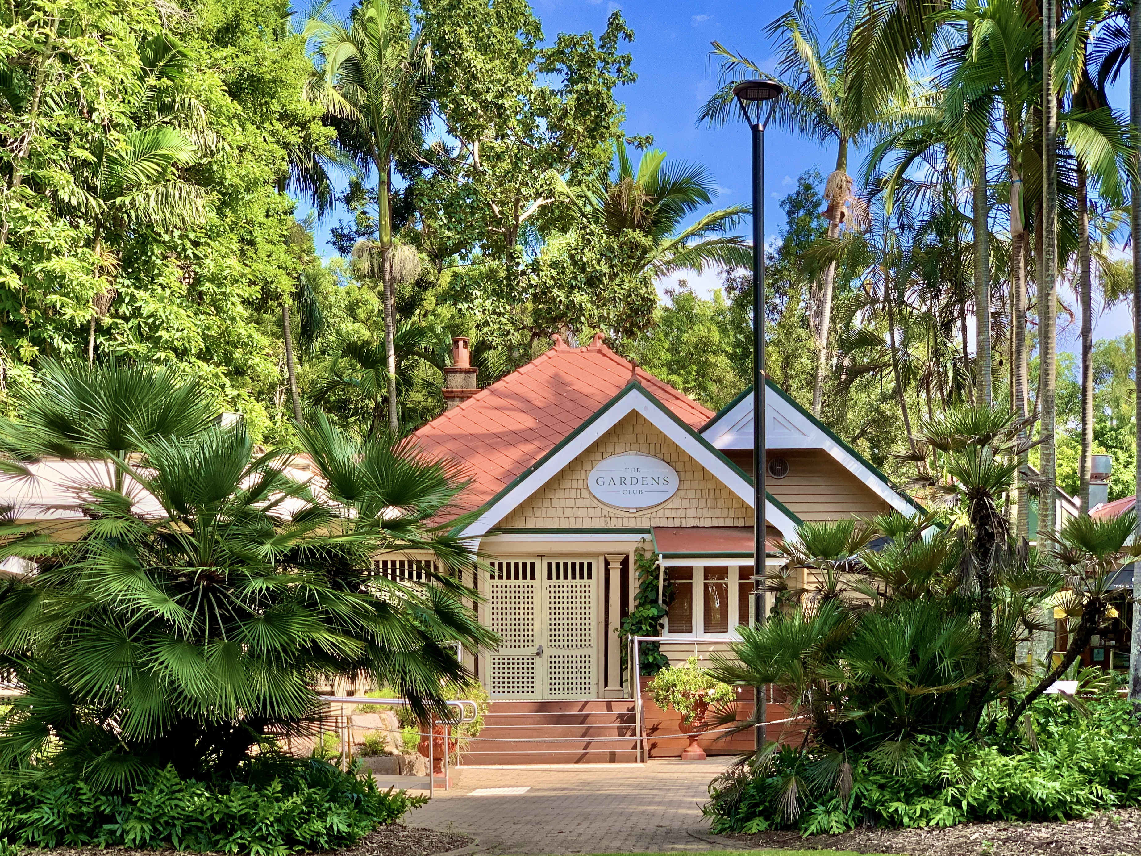 Curator's house in the City Botanic Gardens, Brisbane, Queensland, 2020